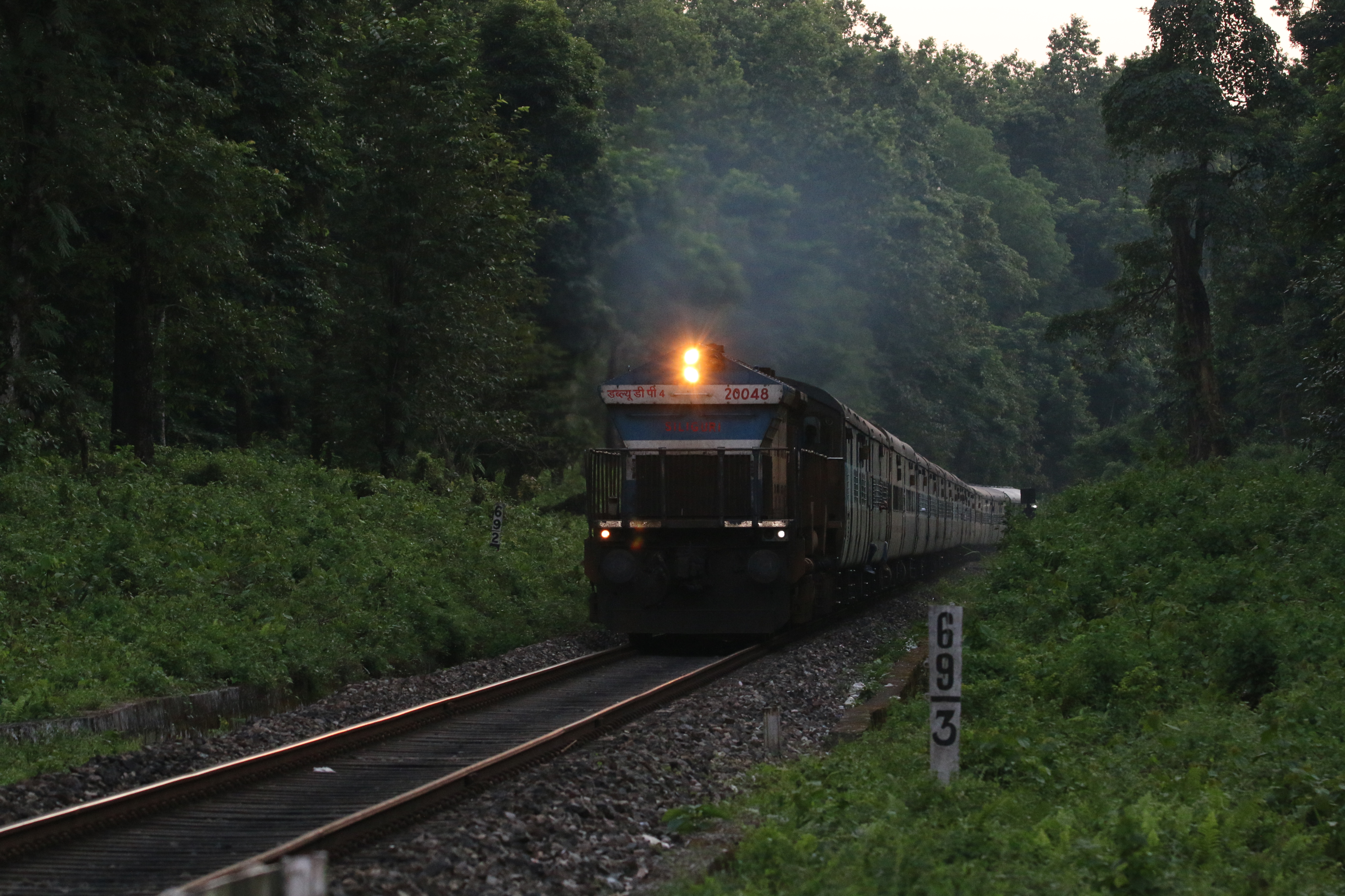 Indian Railway penetrating the National Park.